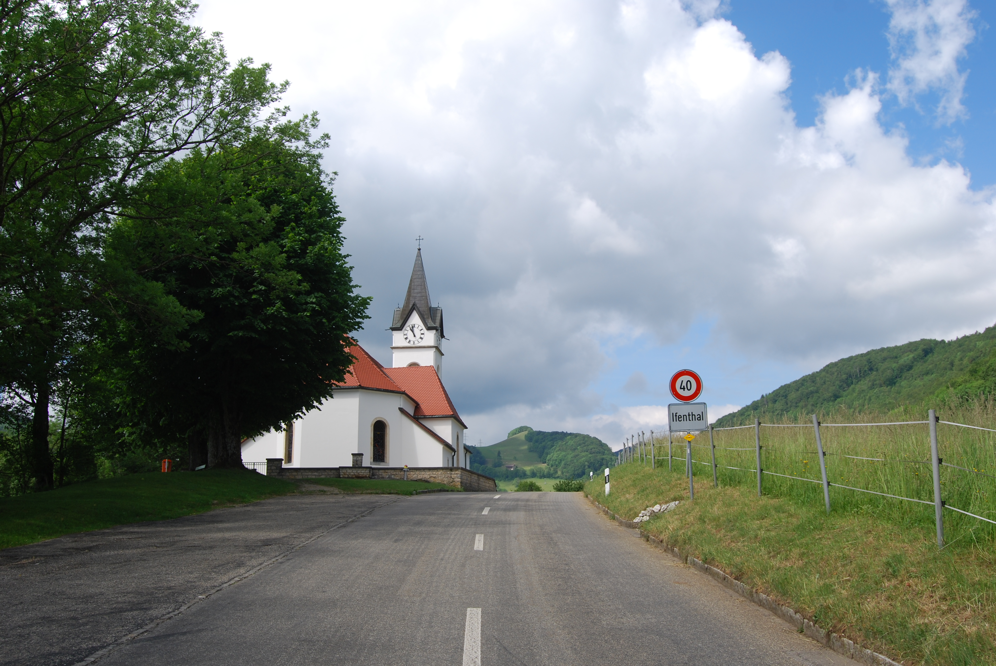 Church of Ifenthal, municipality Hauenstein-Ifenthal, canton of Solothurn, Switzerland